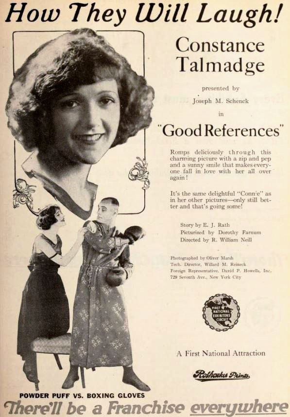 Advertisement for the American comedy romance film Good References (1920) with Constance Talmadge and an unidentified actor, on page 39 of the August 21, 1920 Exhibitors Herald.